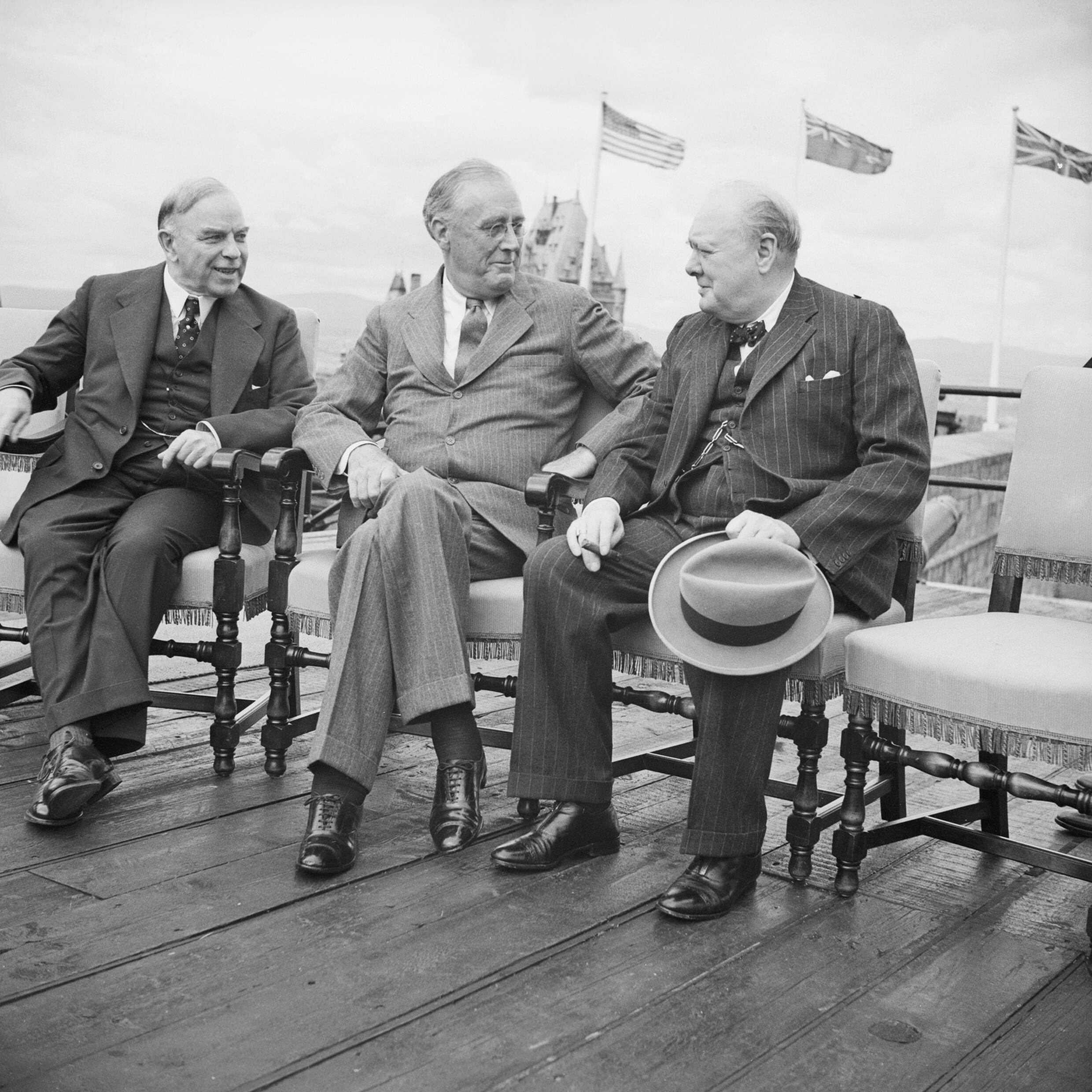 Canadian Prime Minister Mackenzie King, with President Franklin D Roosevelt, and Winston Churchill during the Quebec Conference, 18 August 1943. Canadian Prime Minister Mackenzie King, President of the United States of America Franklin D Roosevelt, and British Prime Minister Winston Churchill in conversation during the Quebec conference on 18 August 1943.